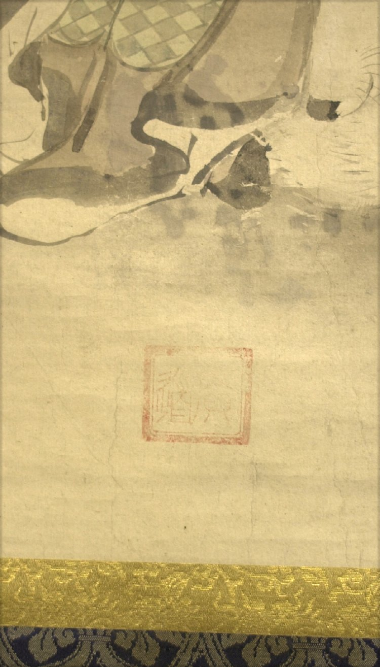 Brush strokes and seal from painting of the deity Jurojin, leaning on a deer. Ink and light colour on paper by Sumiyoshi Jokei (住吉如慶), 17th century. British Museum Registration number: 1881,1210,0.201